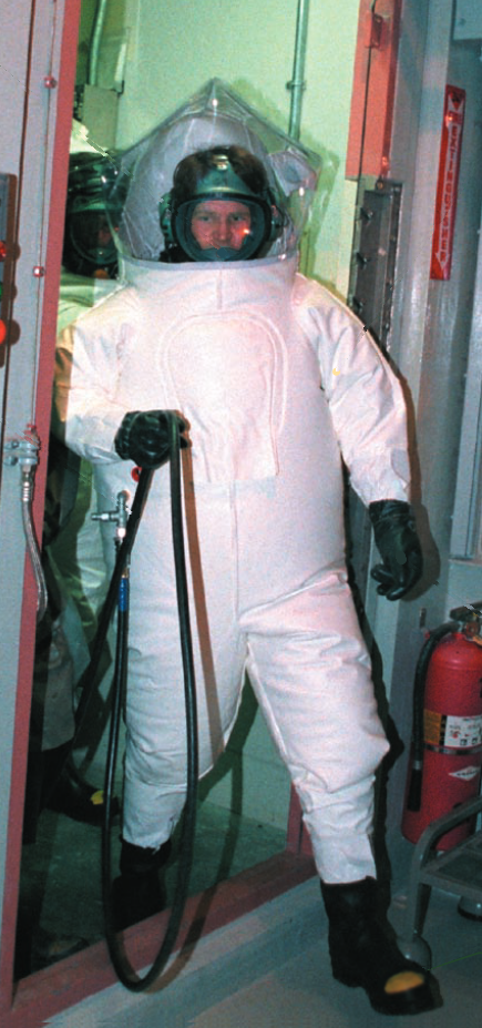 Image of a Demilitarization Protective Ensemble suit from detail of U.S. Army public domain fact sheet PDF, slightly retouched by User:The Anome to remove dots and lines leading to captions on original PDF -- all public domain